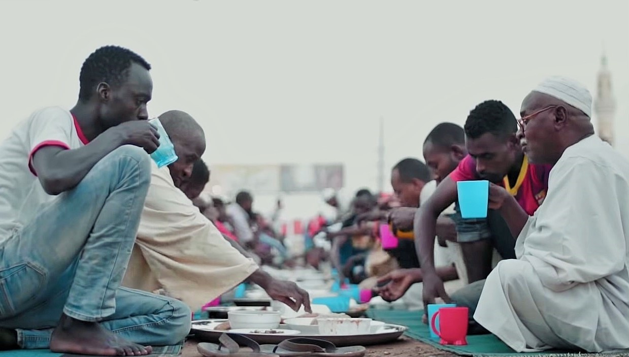 The cultural 'Ramadan' breakfast, everyone has to eat in the street This is an image with the theme "Play" from: Sudan